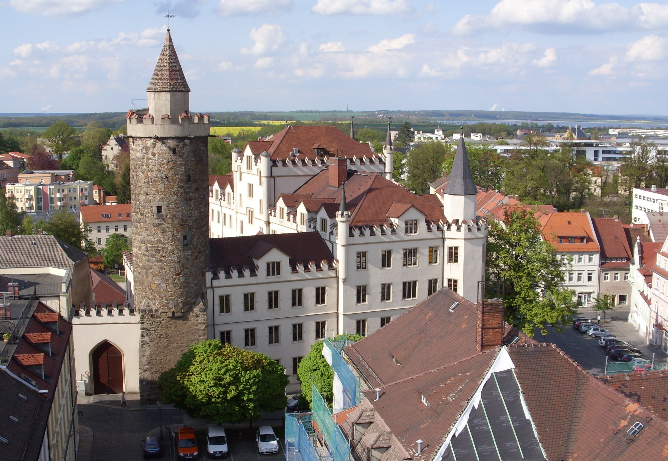 This is a photograph of an architectural monument.It is on the list of cultural monuments of Bautzen